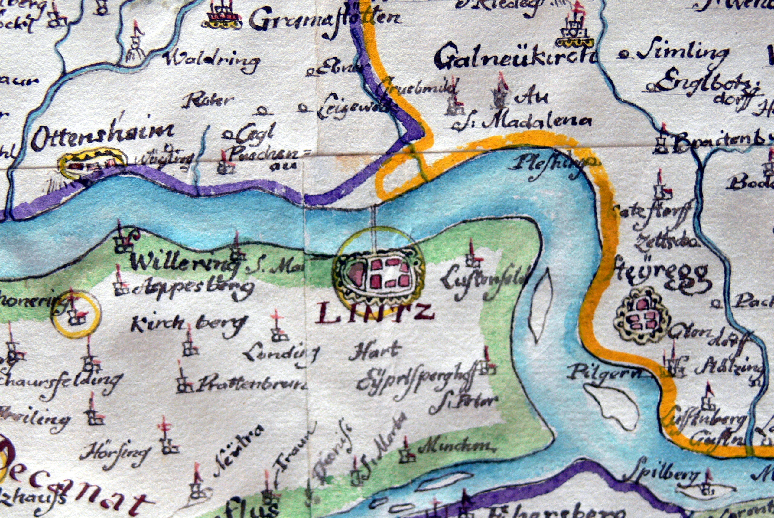 Oberhausmuseum ( Passau ). Map of the diocese of Passau ( 1719 ) - detail: Linz and surroundings.